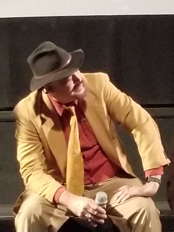 Christopher Coppola at a Q&A for Shoot the Whale at the Roxie Theater in San Francisco, California, United States